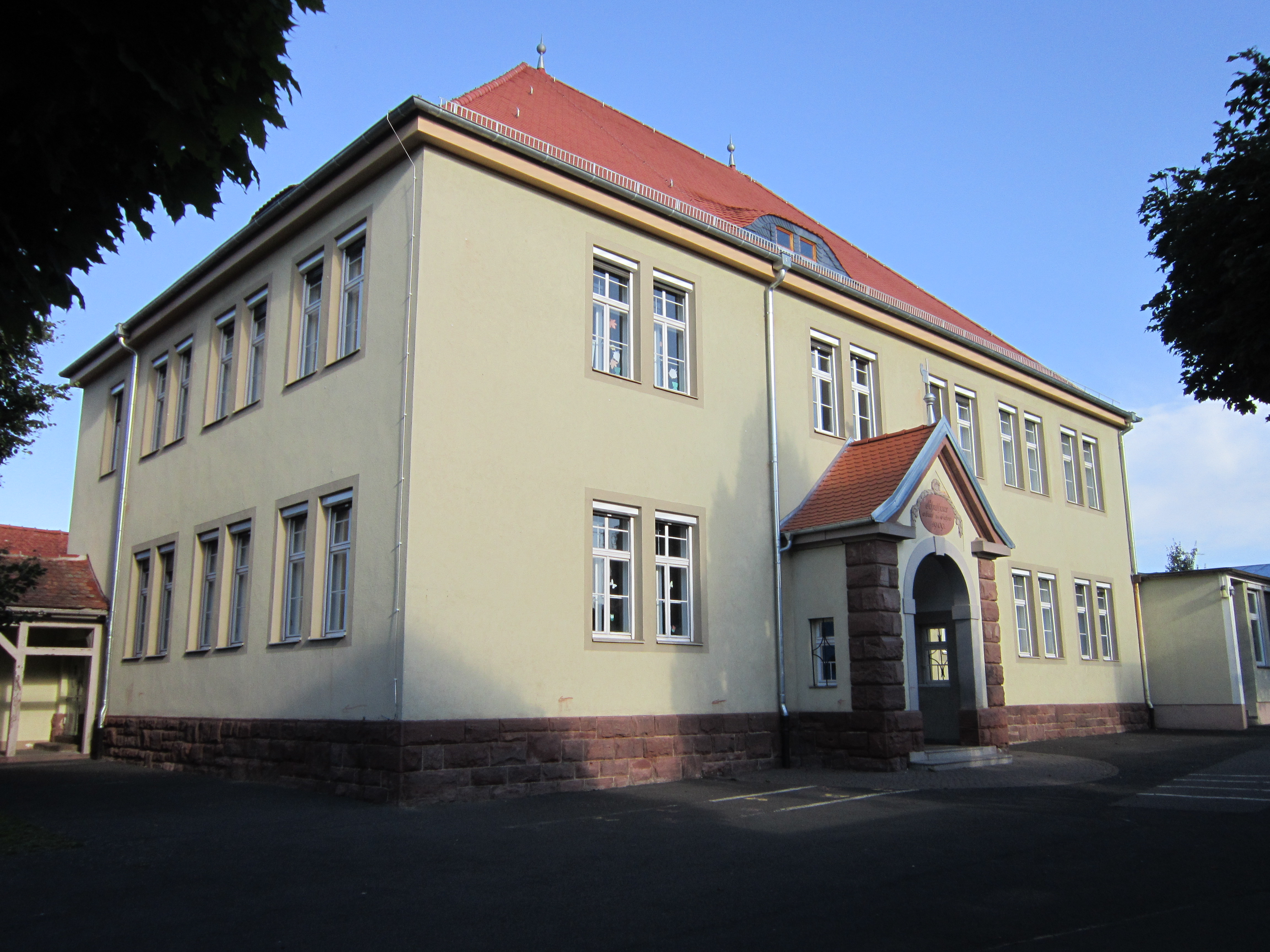 Elementary school (built in the year 1909) in Garitz, a quarter of the German spa town of Germany (Lower Franconia, Bavaria).